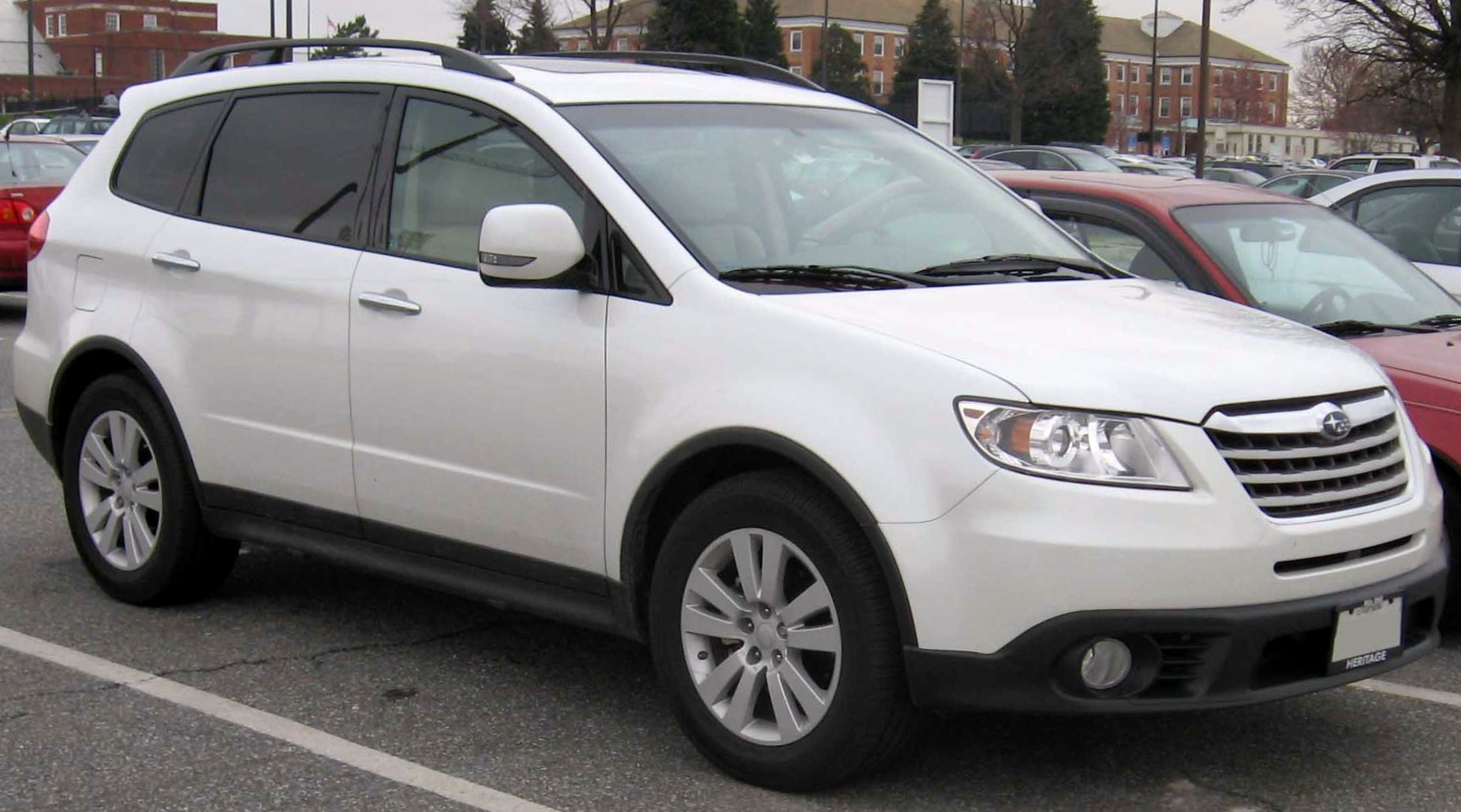 2008 Subaru Tribeca photographed in College Park, Maryland, USA.